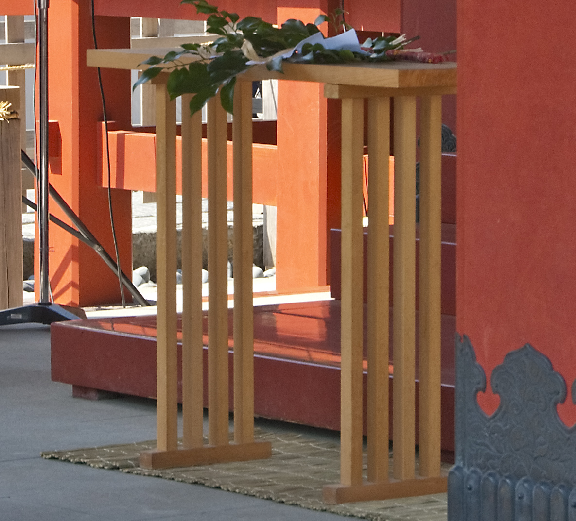 An "an", table used during Shinto ceremonies, with a tamagushi on top